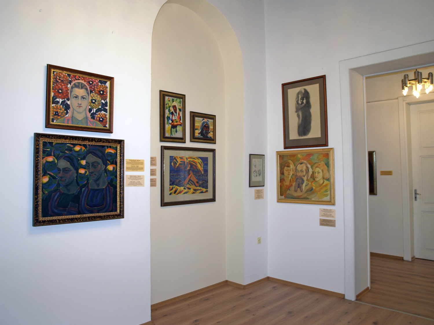 City Gallery of fine arts - Plovdiv, Permanent exposition, Vladimir Dimitrov works